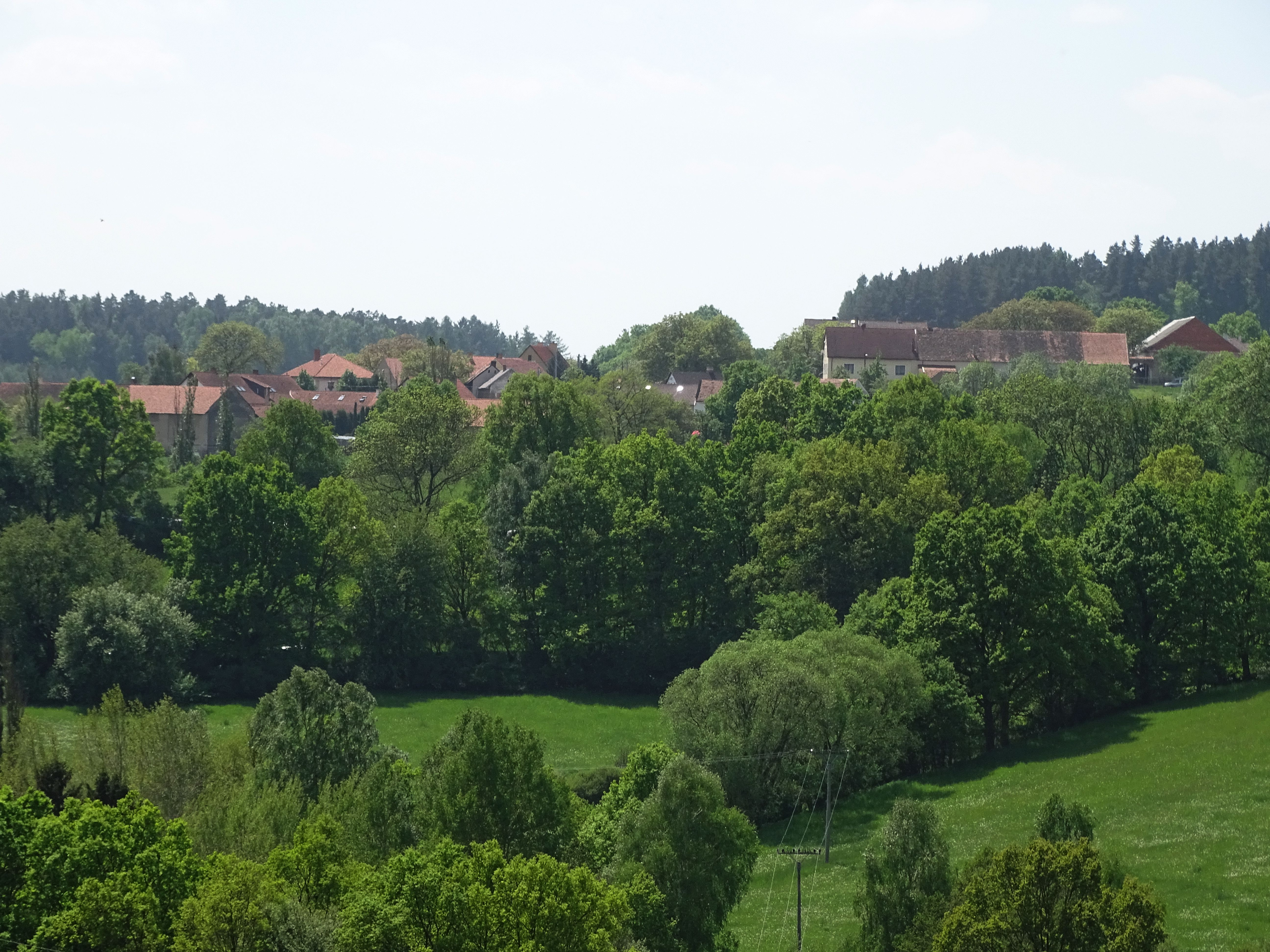 Prosenická Lhota-Prosenice, Příbram District, Central Bohemian Region, Czech Republic. Seen from northeast.